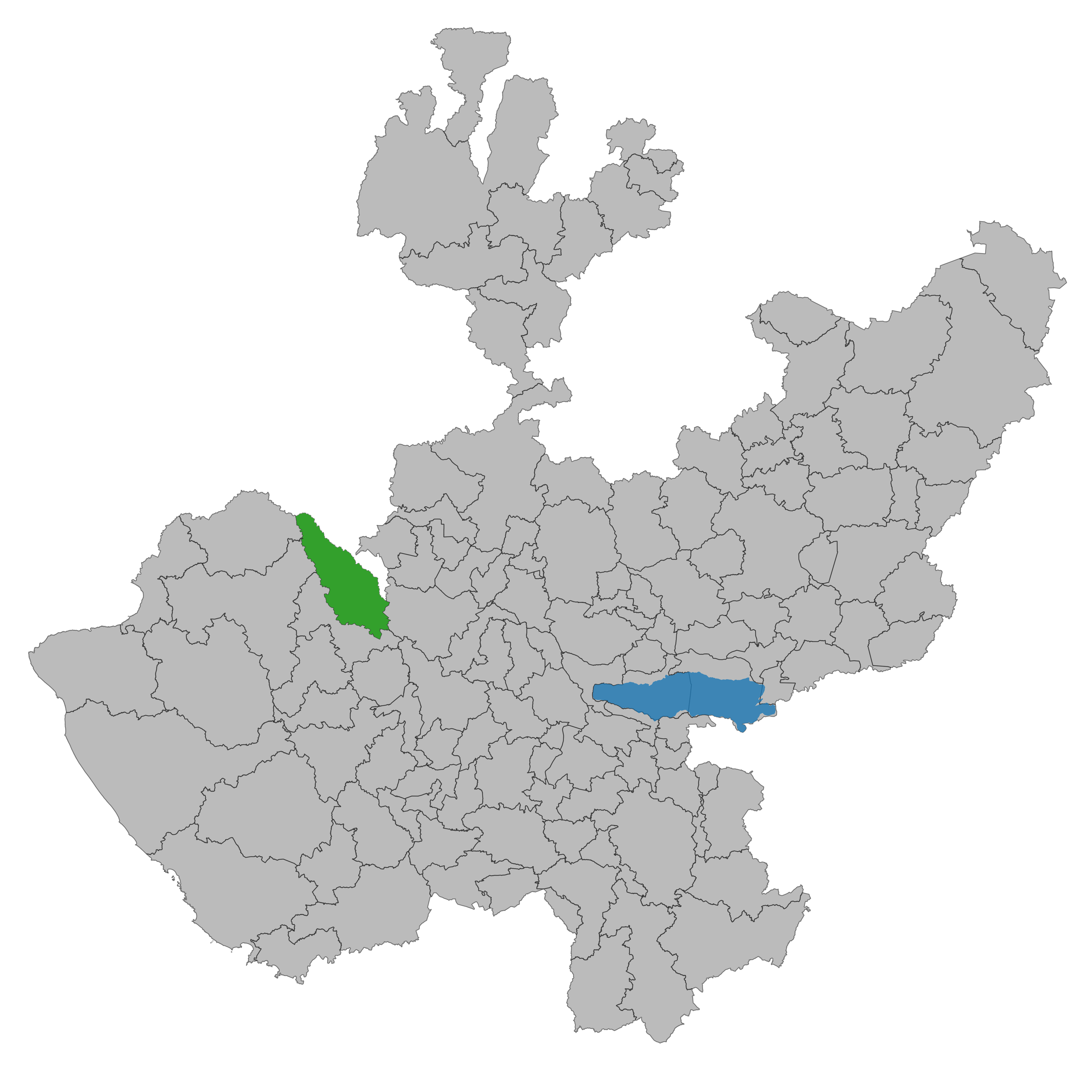 Municipality of Jalisco. Prepared with the software QGIS version 2.8.2 Wien & with information of SCINCE 2010 version 05/2013